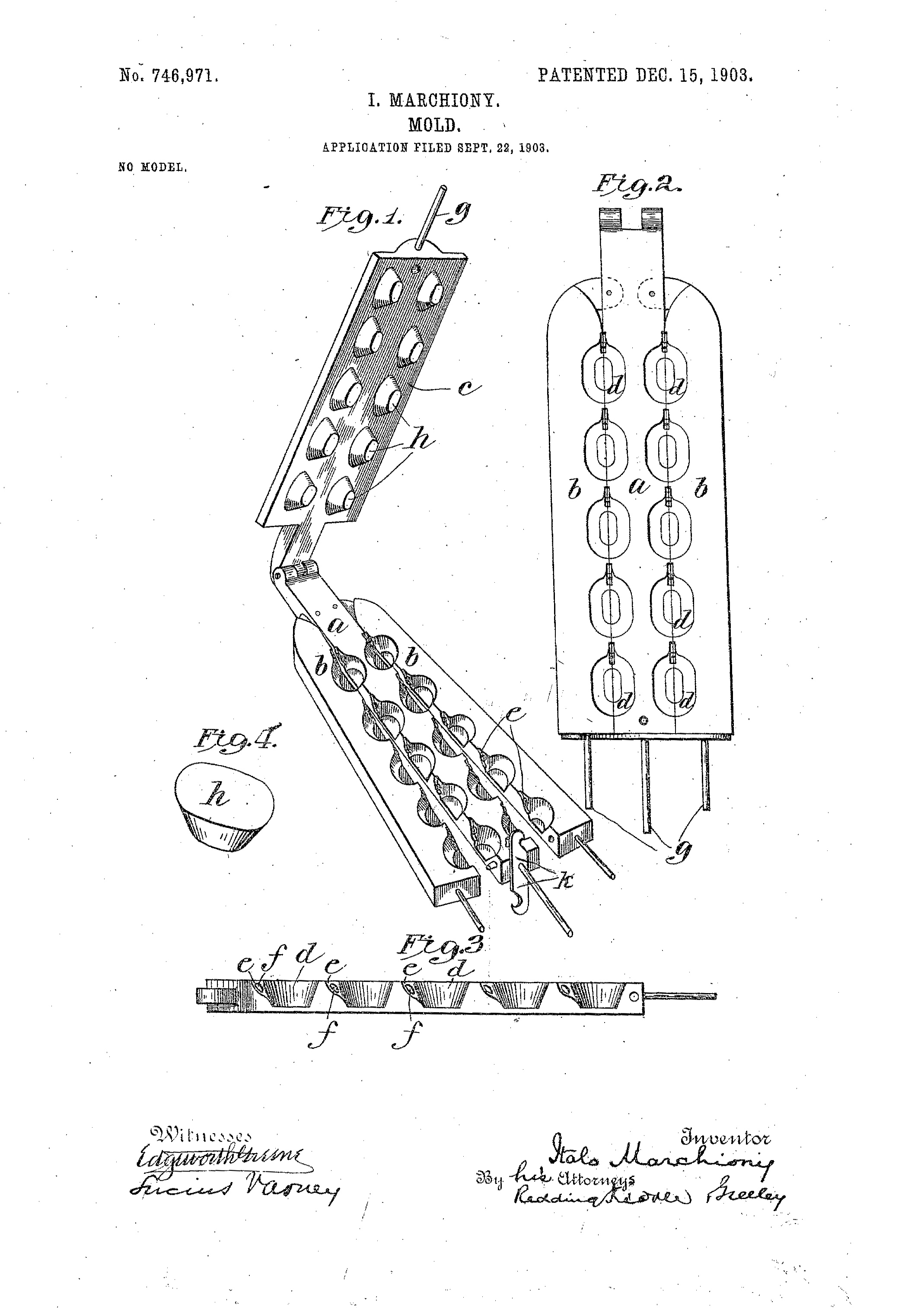 Italo Marchiony (or Marchioni) of New york. Moulding apparatuses used in the manufacture of ice cream cups – United Stated Patent Office patent n°746971, december 15, 1903.